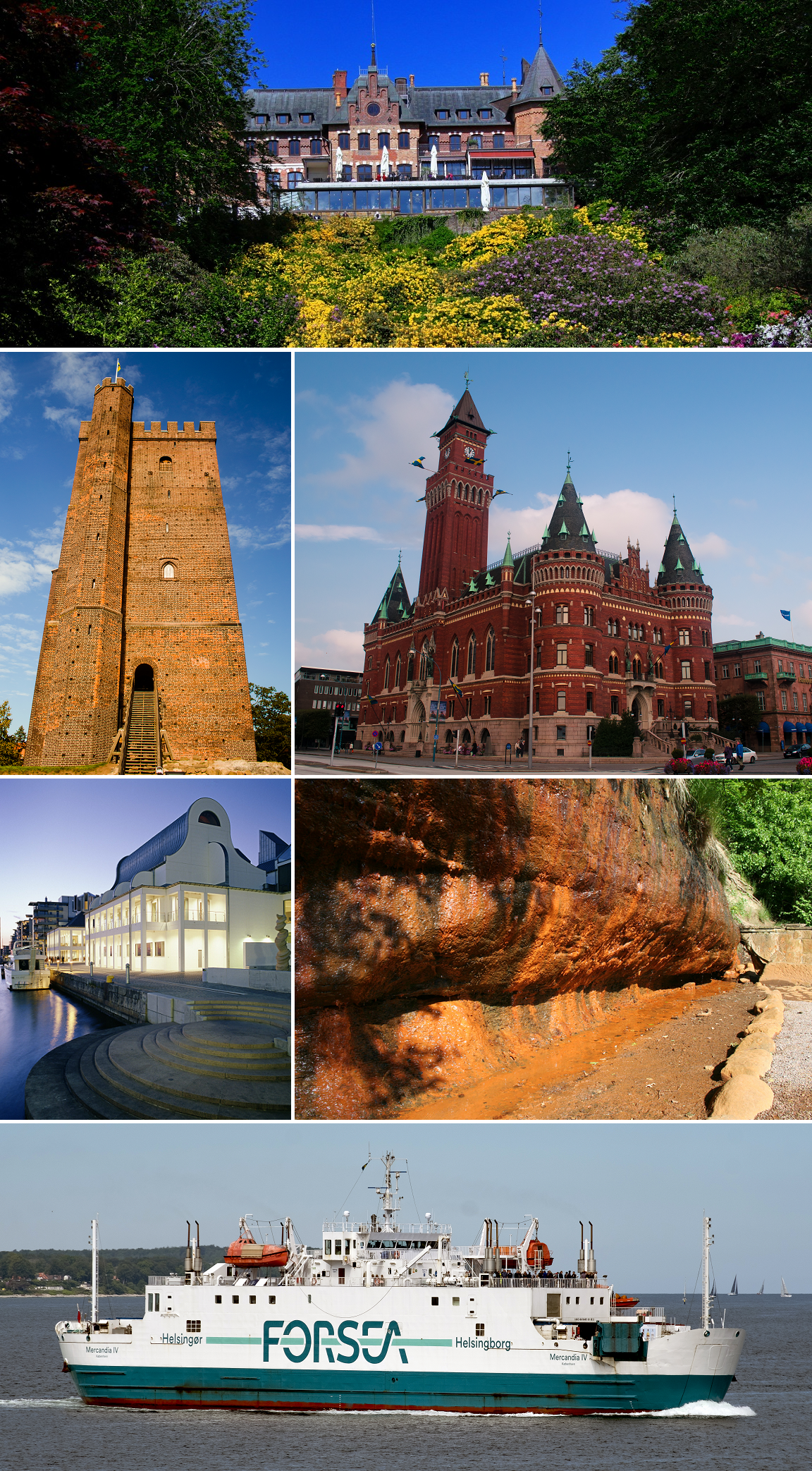 Montage of various Helsingborg images.